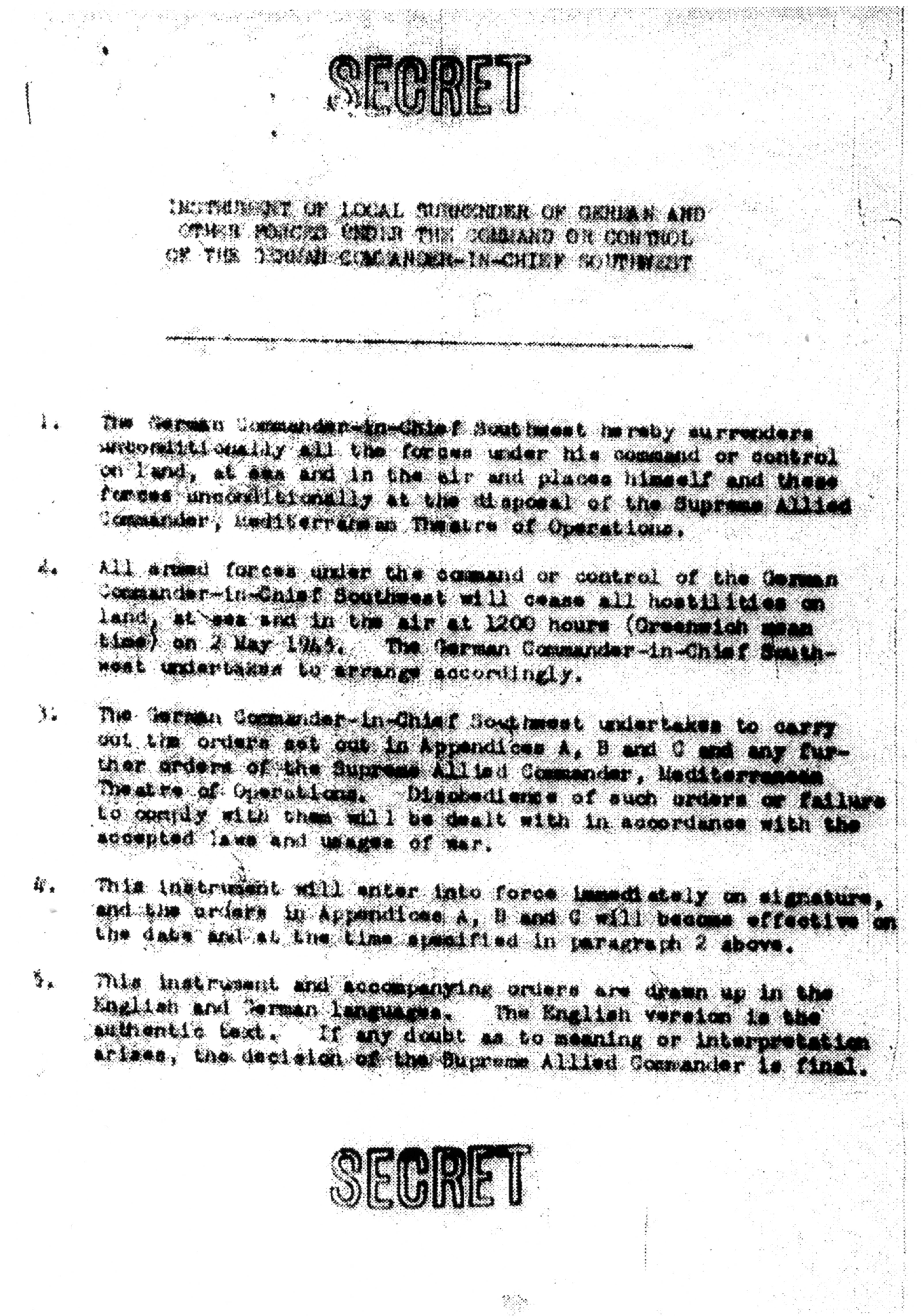 Instrument of Local Surrender of German and other forces under the comand or control of the German Commander-in-Chief Southwest (page 1 of 2)